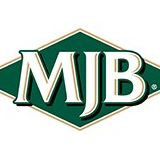 current logo for the MJB Coffee company of the United States.